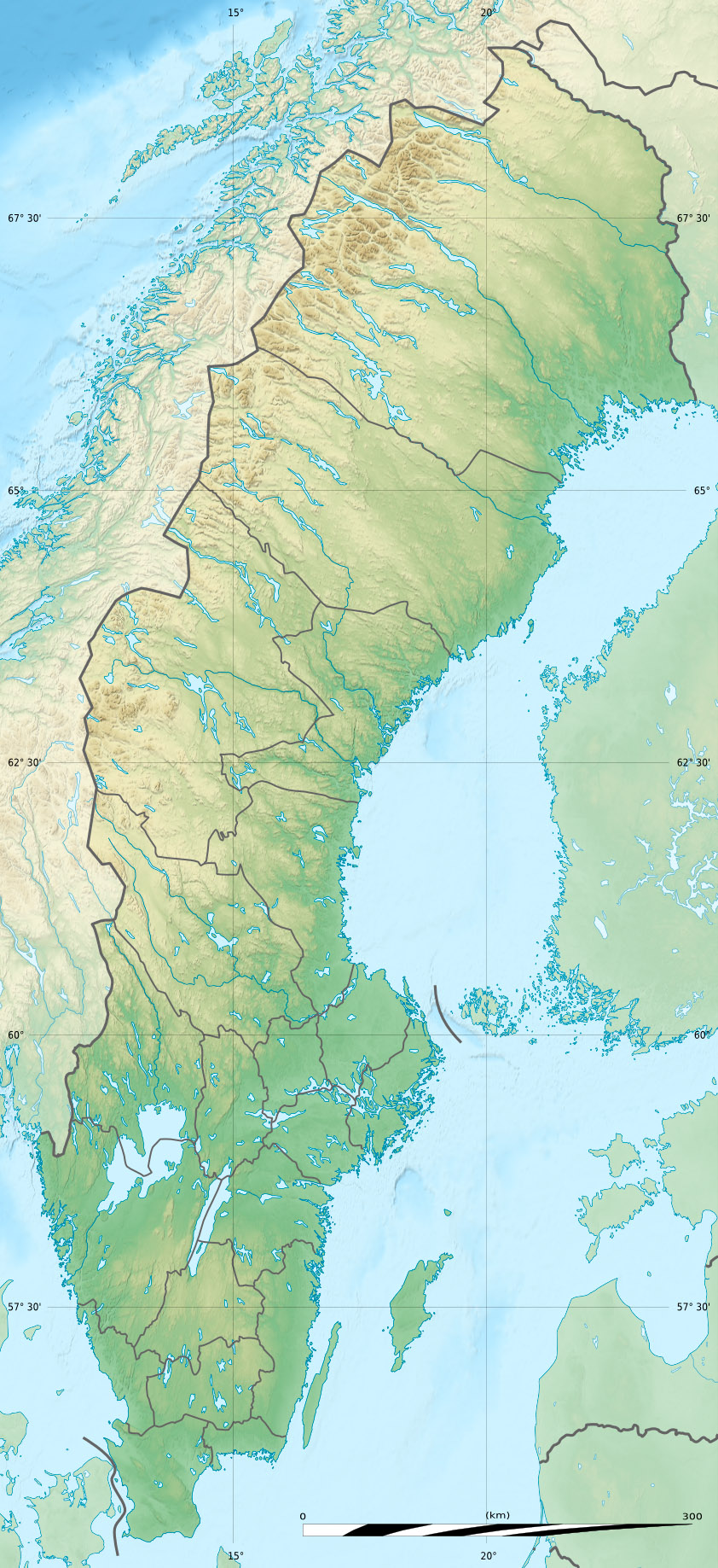 Blank relief location map of Sweden